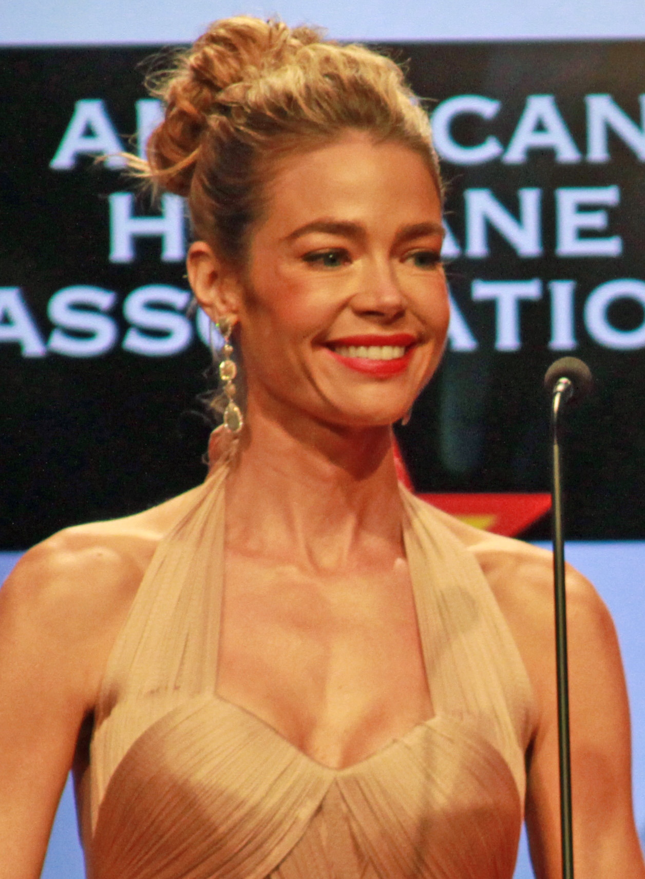 Denise Richards and Kellie Martin at the American Humane Association 2012 Hero Dog Awards.